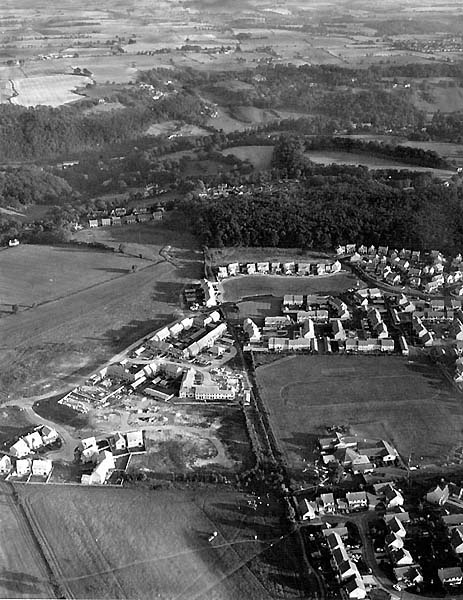 Helicopter outing over the village of Bussage, Gloucestershire, looking south towards Frith Wood (c.1991}. The helicopter took off from Bussage Primary School playing field.